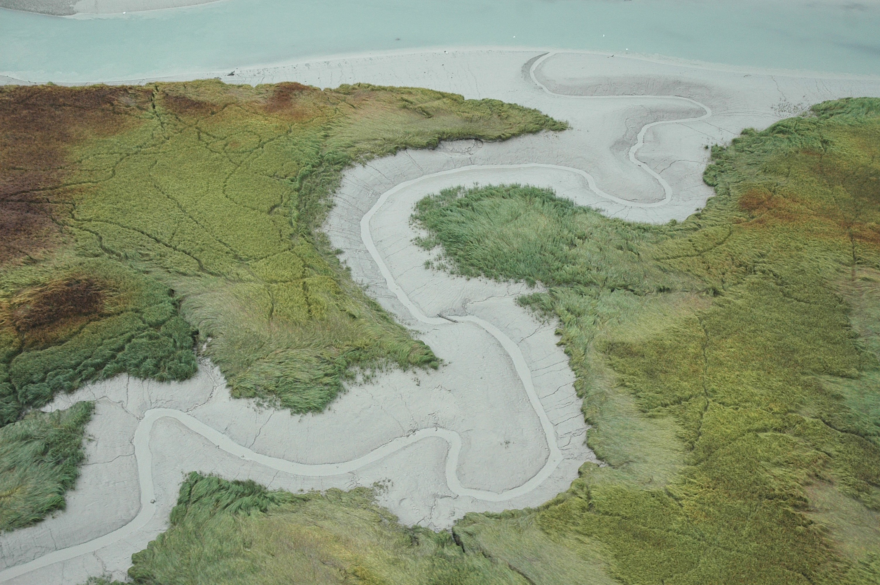 Aerial photograph. A gray mud meandering tidal stream emptying into Taku Inlet. Curious patterns looking like random trails cover the adjoining grassland. Alaska, Taku Inlet.